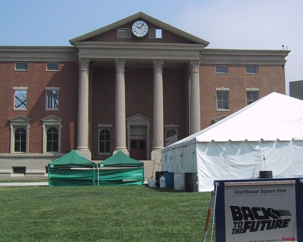 The rebuilt set of the Hill Valley courthouse, used in the Back to the Future movies, located at Universal Studios in Universal City, California. Picture taken on April 2nd 2002 by Jawed Karim.